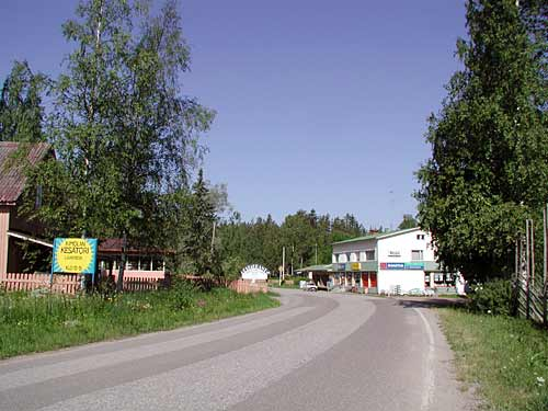 Eiraskanmutka road (local road 14550) in Kimola, Jaala